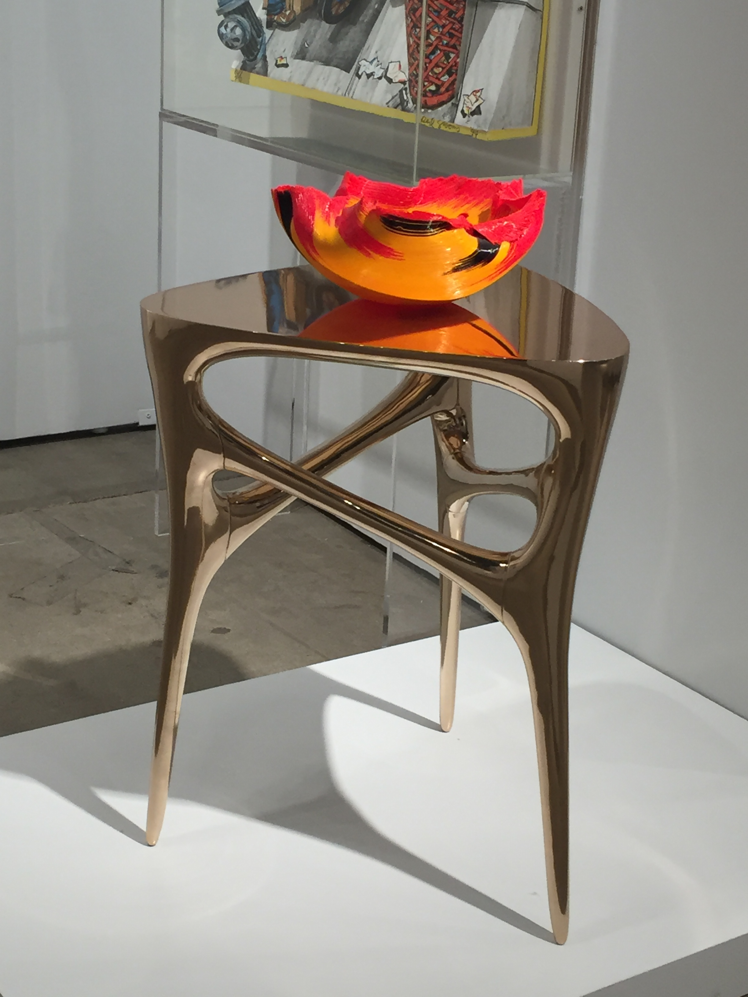 cast bronze table by timothy shreiber